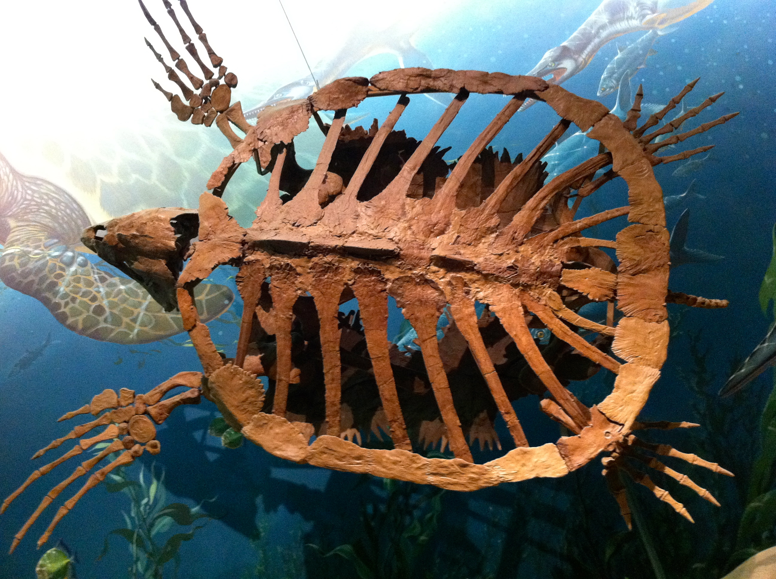 Display of fossil of an extinct turtle at the National Museum of Natural History in Washington DC, USA